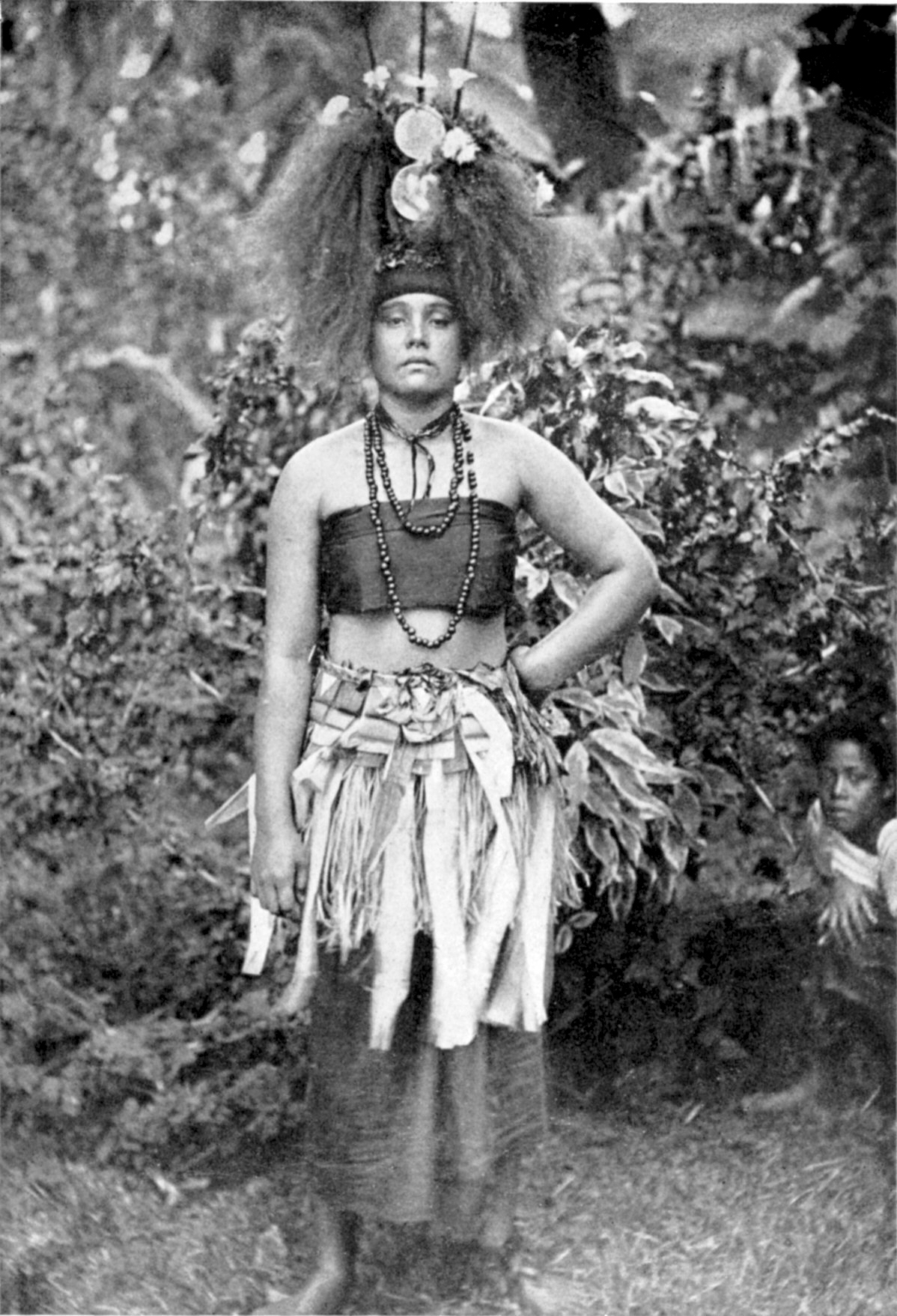 A Samoan lady of rank wearing the tuinga. An ornamented head-dress made of human hair.